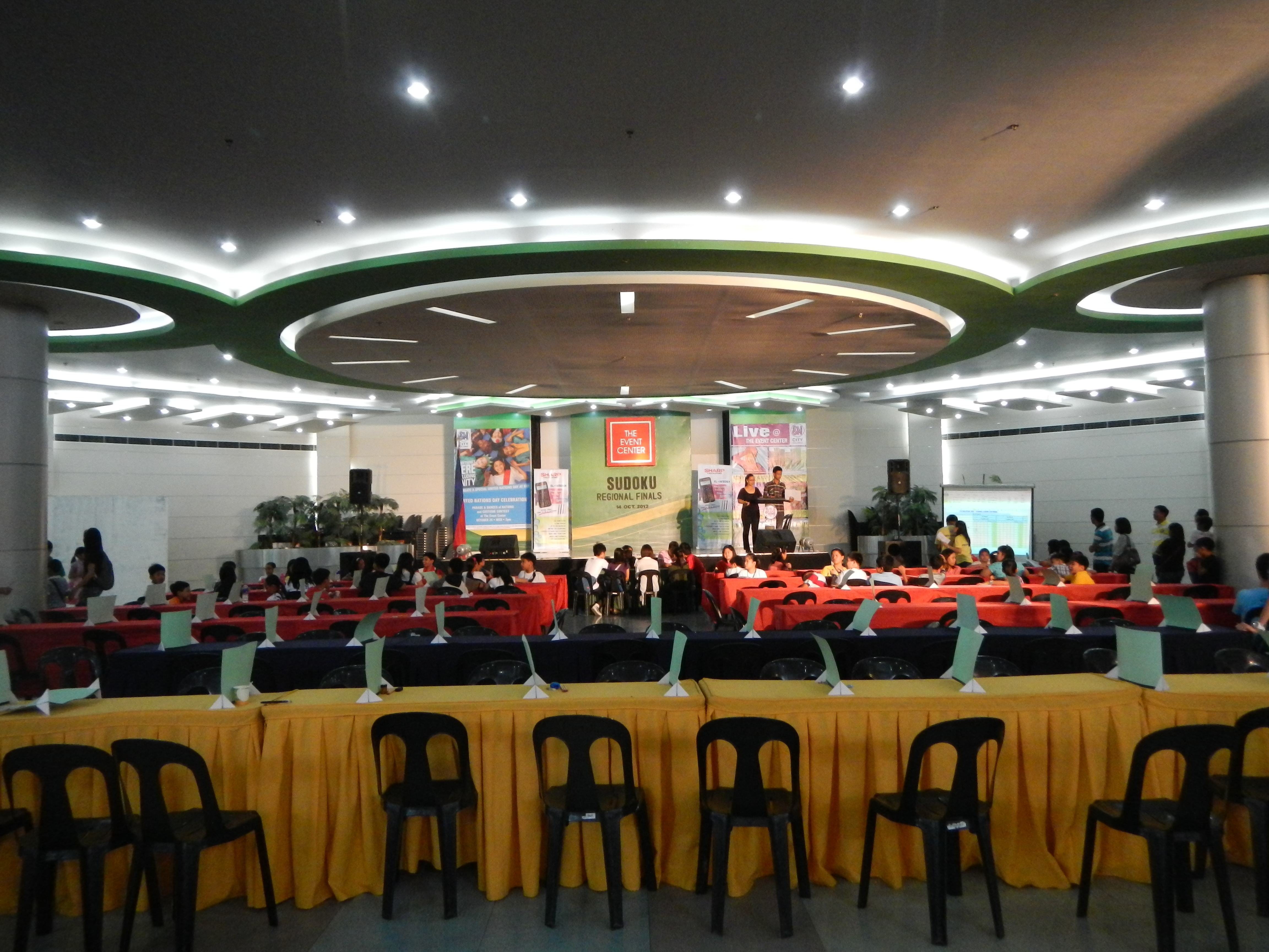 Sudoko competition at SM City Baliuag